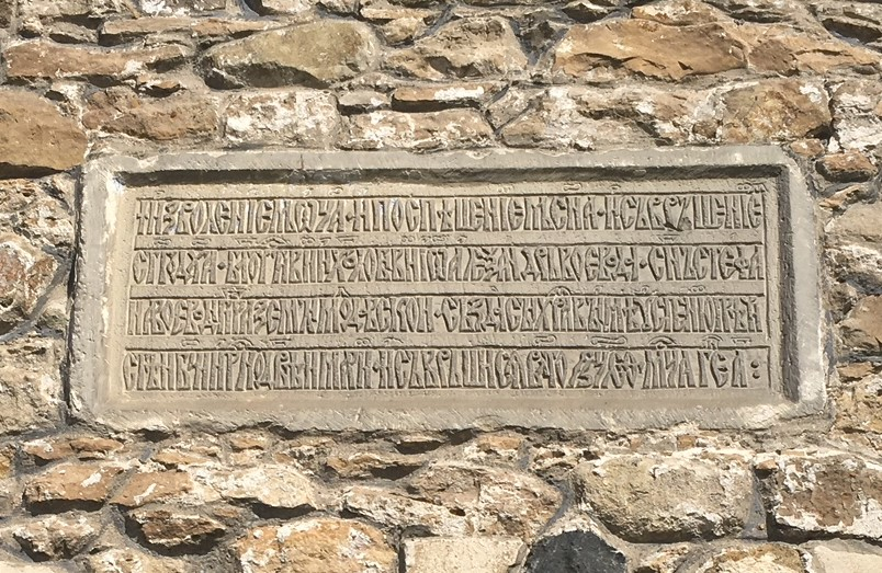 The first document about Bacau